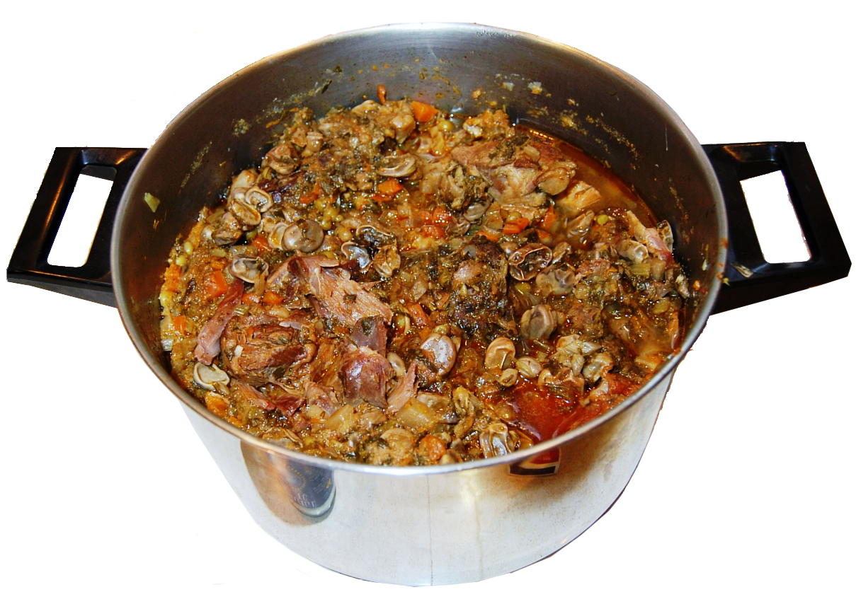 Msuki